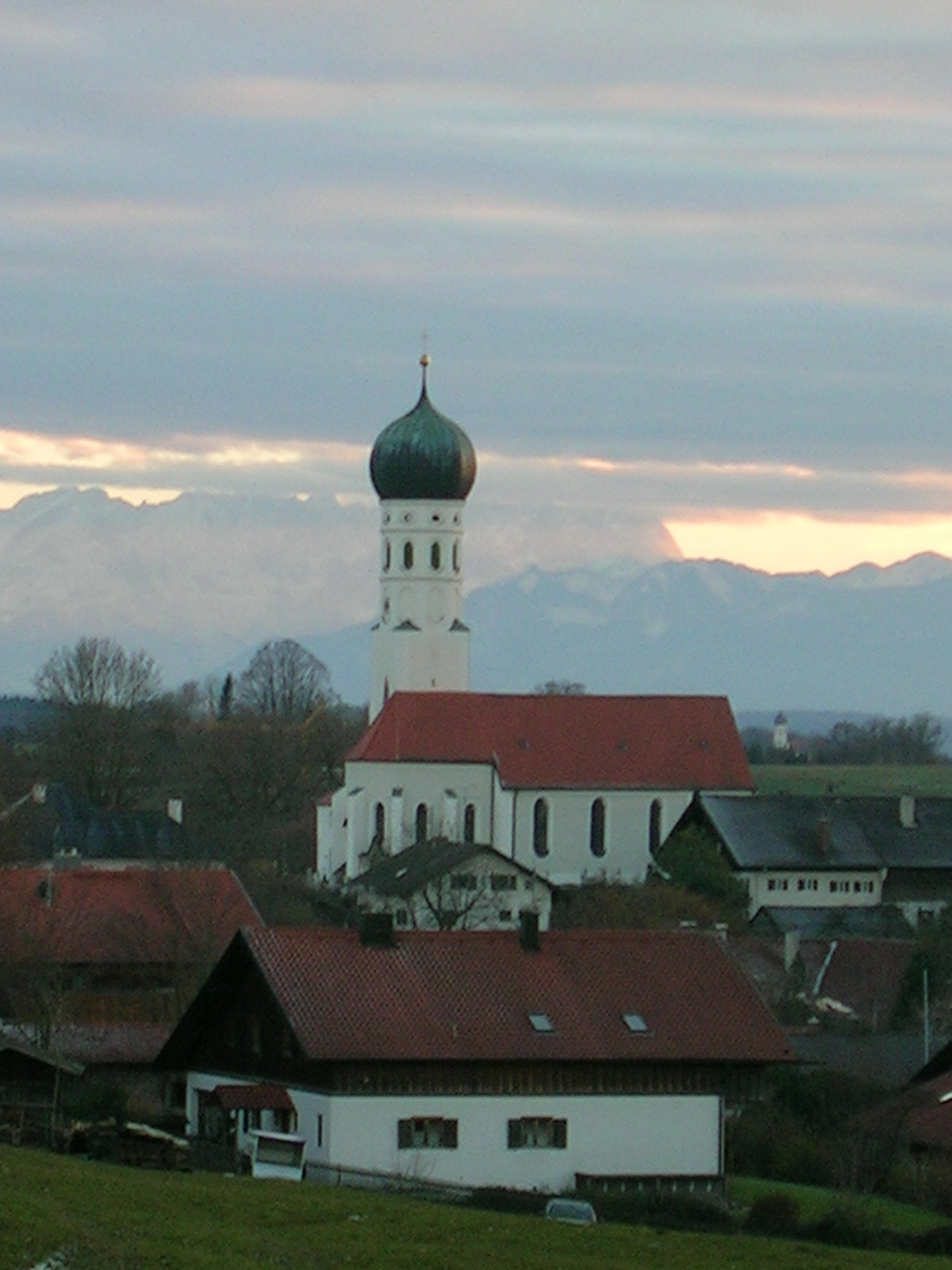 Münsing in Bavaria near Lake Starnberg